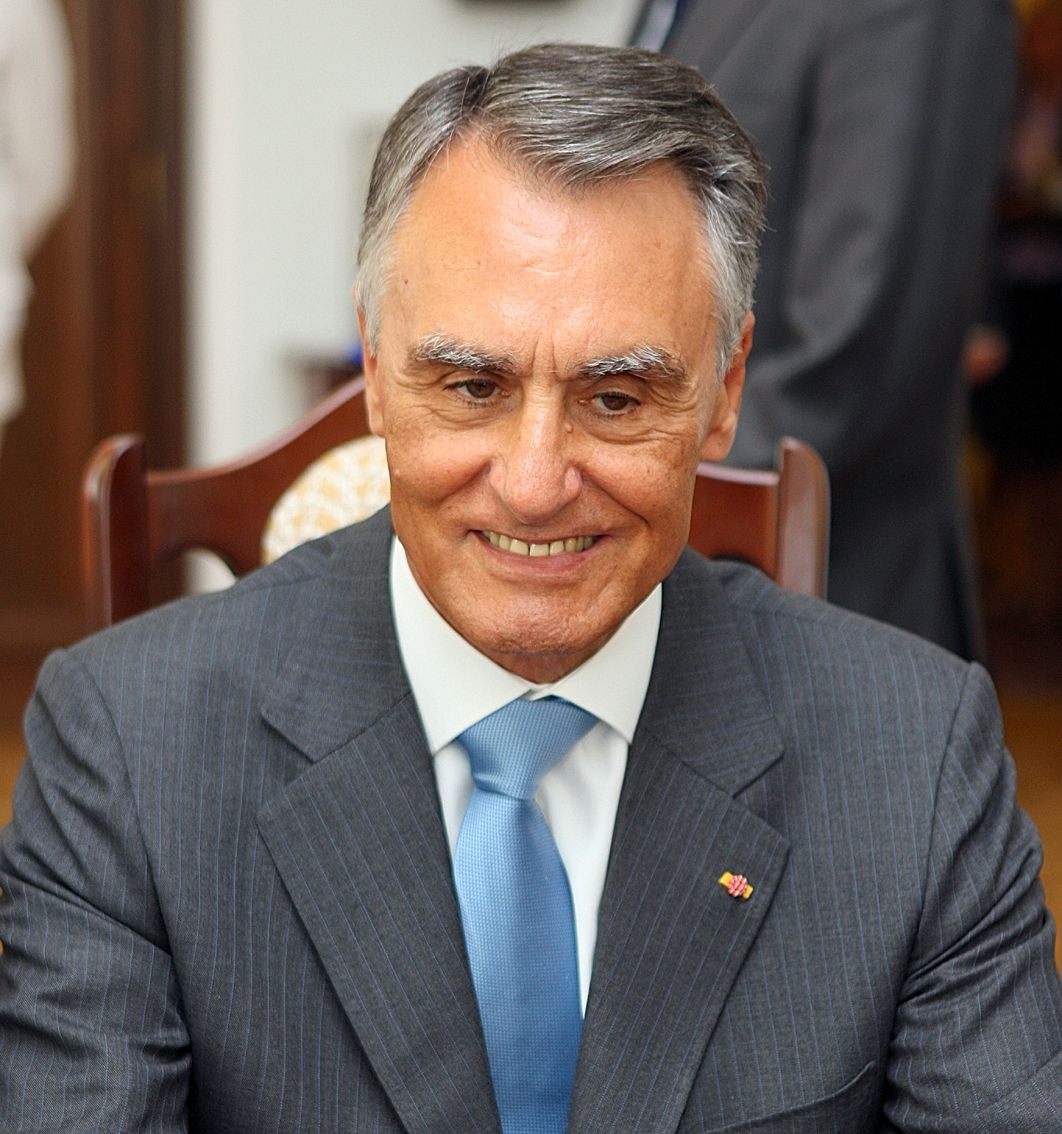 President of Portugal Aníbal Cavaco Silva in the Polish Senate